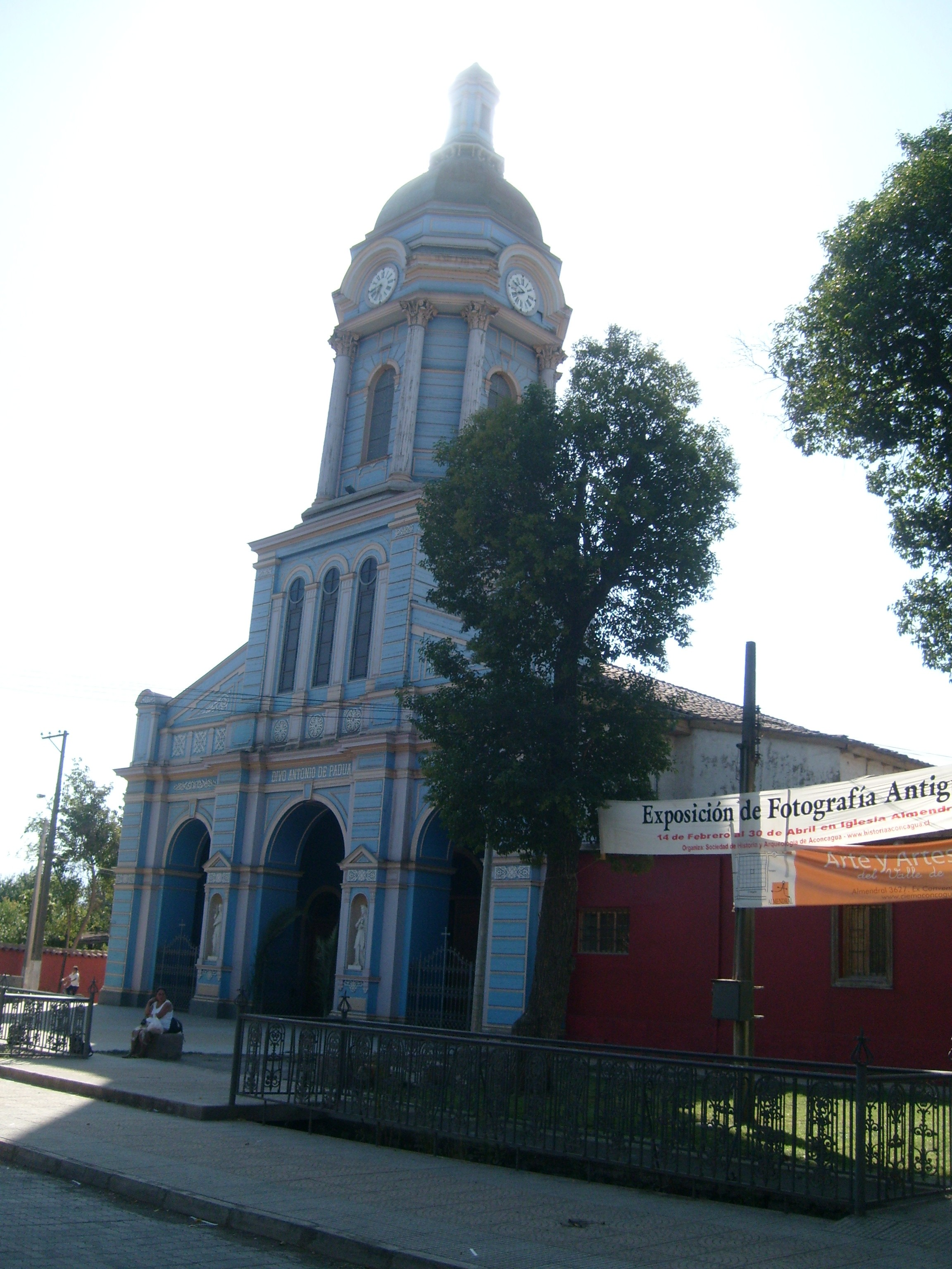 El Almendral church, San Felipe (Chile)